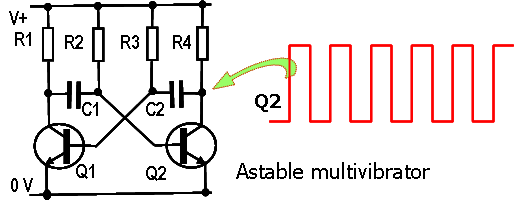 Astable Multivibrator